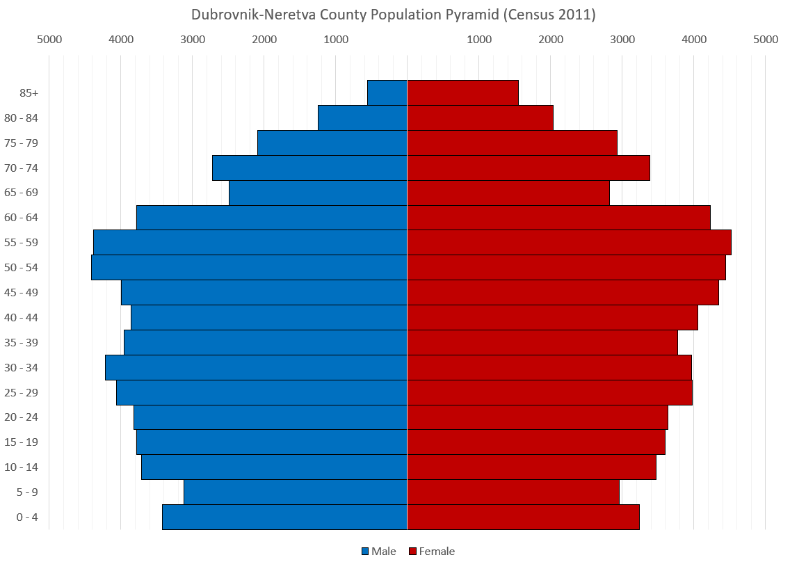 Population pyramid of Dubrovnik-Neretva County. Version in English. Data from 2011 Census; available at